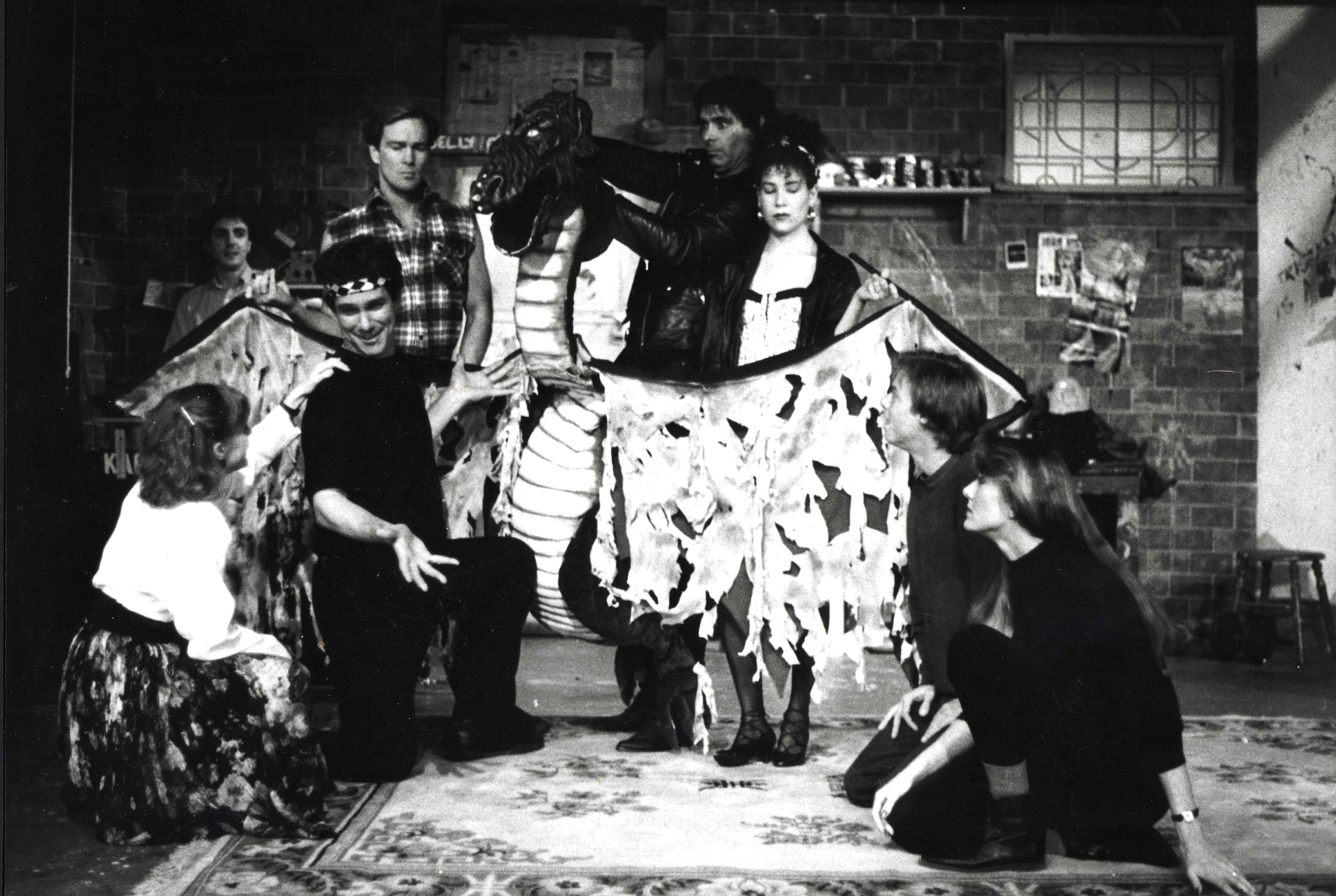 Production photo from the Stanley Keyes play Dragn Slayers, directed in 1990 by Brad Mays.